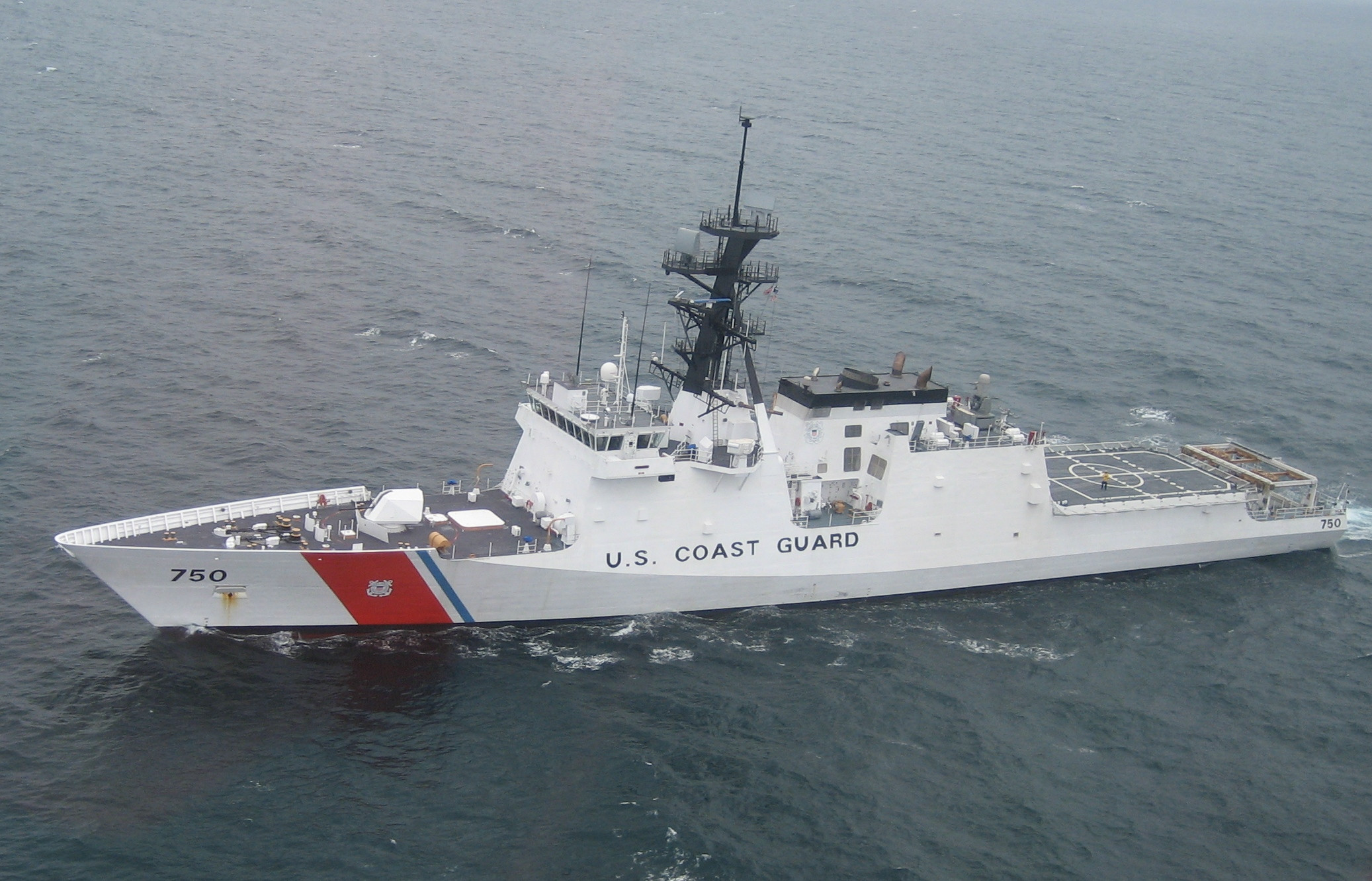 LOS ANGELES -- Aerial photo of the new National Security Cutter Bertholf taken from an HH-65C helicopter from Coast Guard Air Station Los Angeles off the California Coast Tuesday, July 22, 2008. (US Coast Guard Photo by Chief Warrant Officer Brian Carlton)